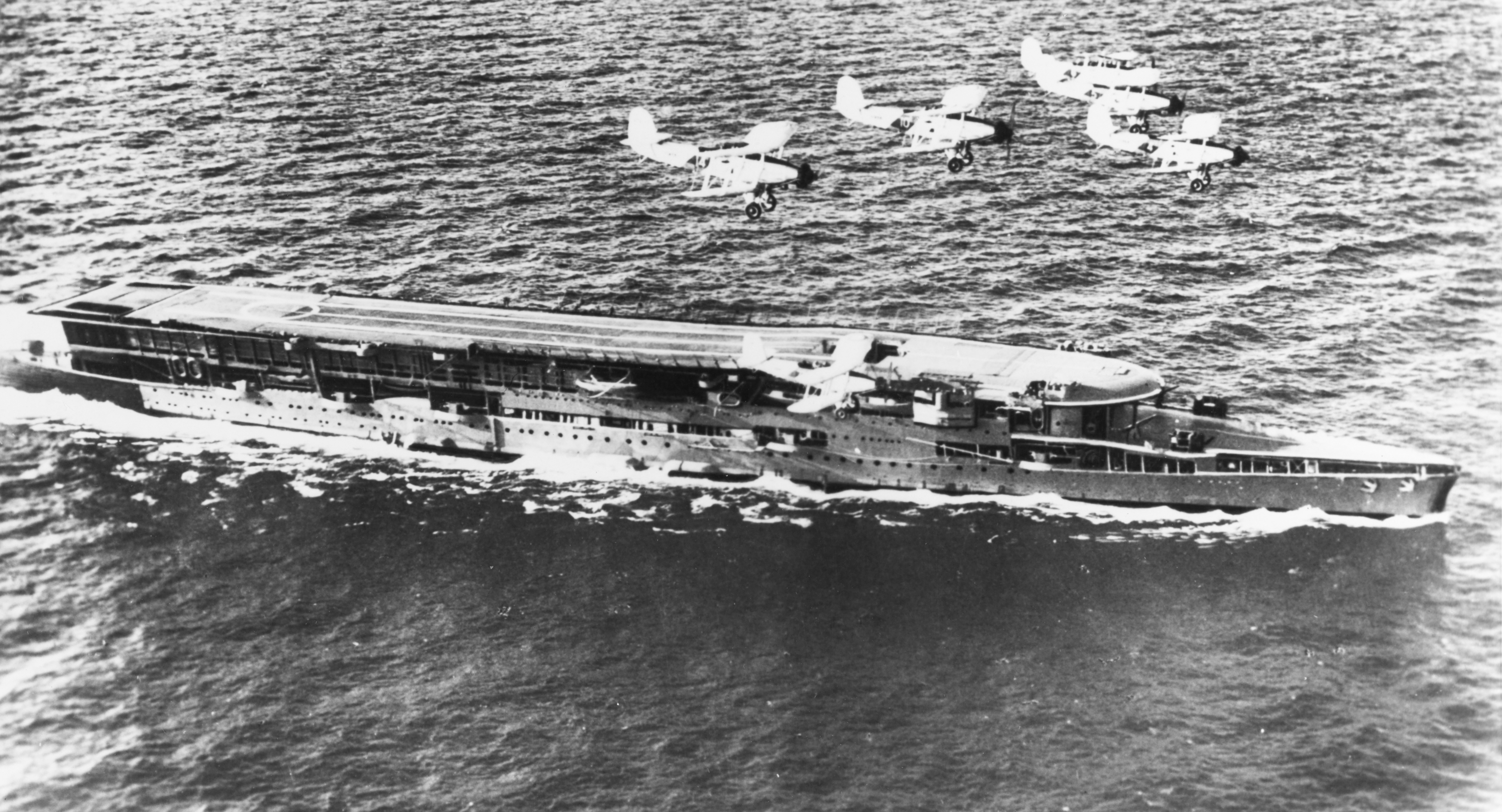 HMS Furious (British Aircraft Carrier, 1917-1948) At sea, circa 1935-36, with a flight of Blackburn "Baffin" torpedo planes overhead. U.S. Naval Historical Center Photograph.